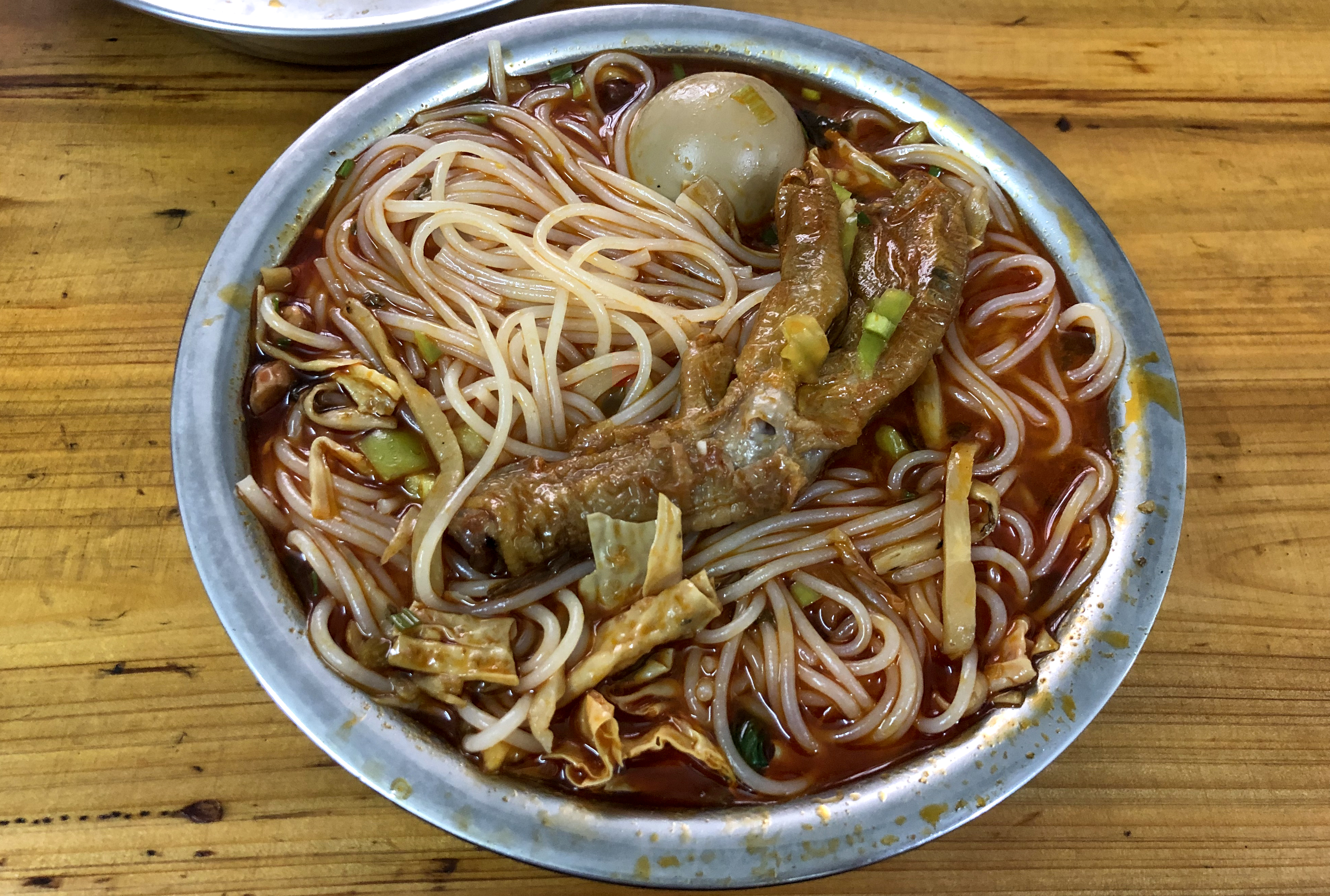 Authentically eaten in Liuzhou. This one only costs 11.50 CNY!